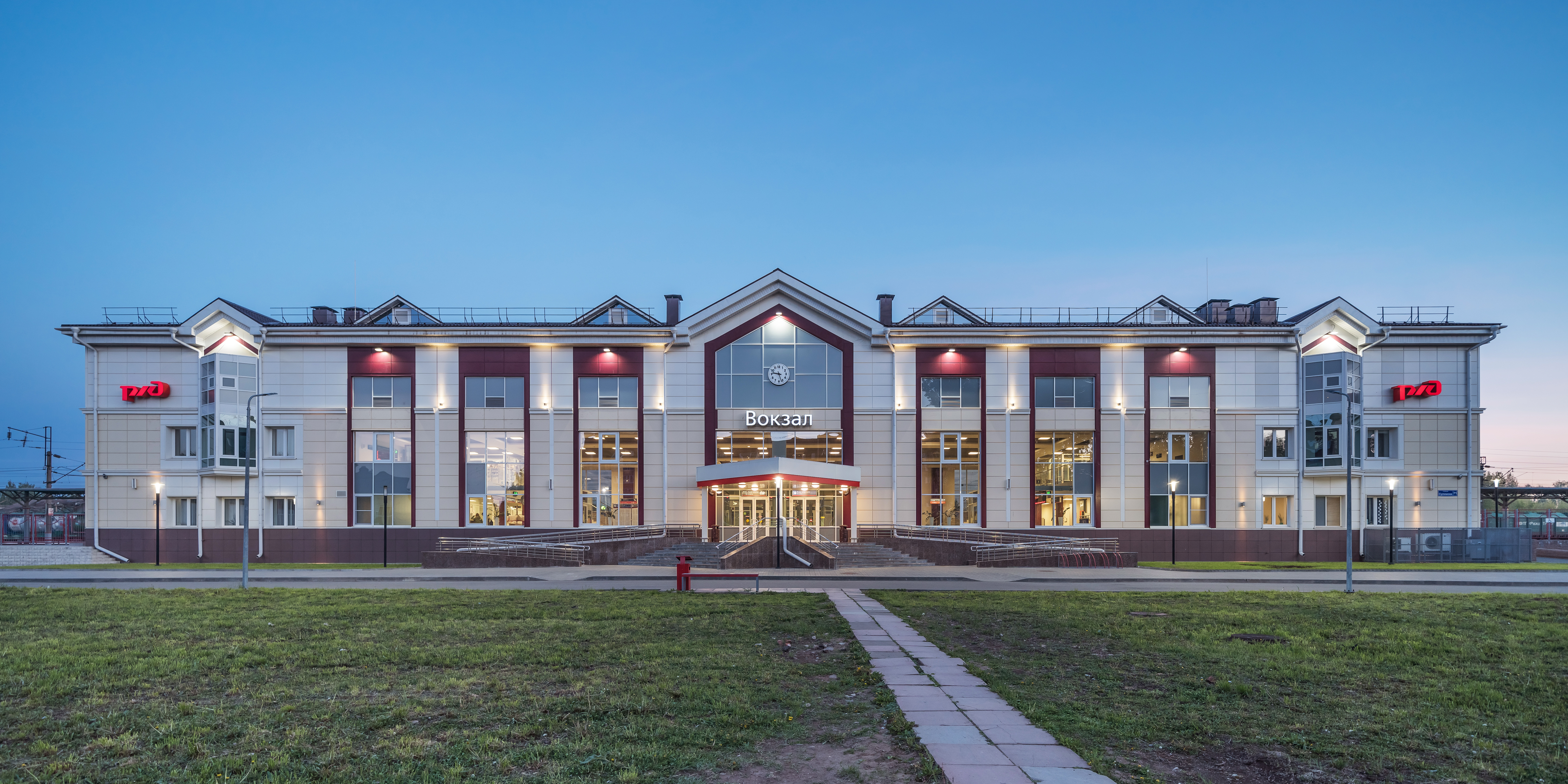 Railway station in Glazov, Udmurtia, Russia